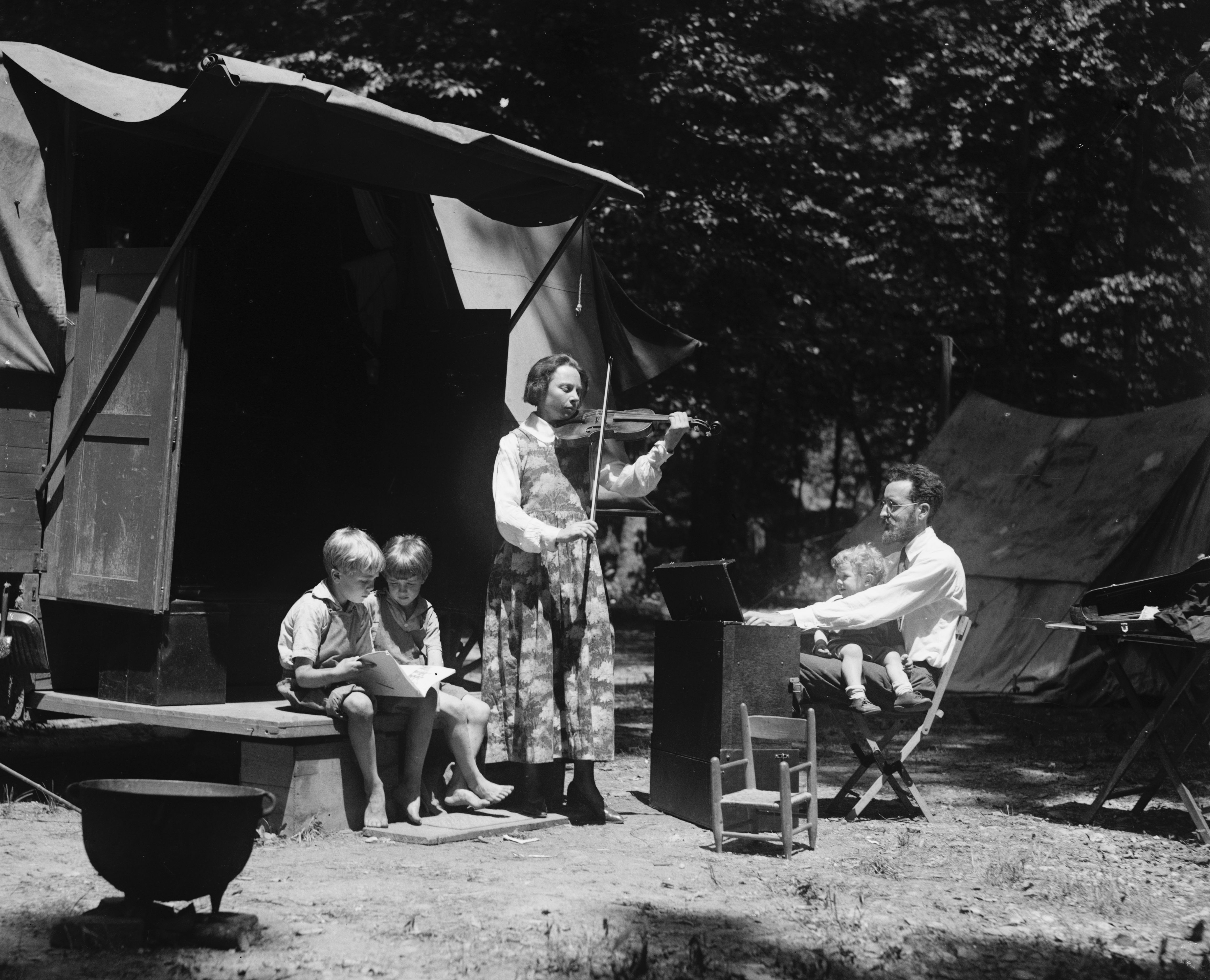 Ethnomusicologist Charles Seeger, Jr., with his wife, Constance, and their three sons, Charles III, John, and Pete. This photograph may be from a tour they made of the American South in a homemade trailer.